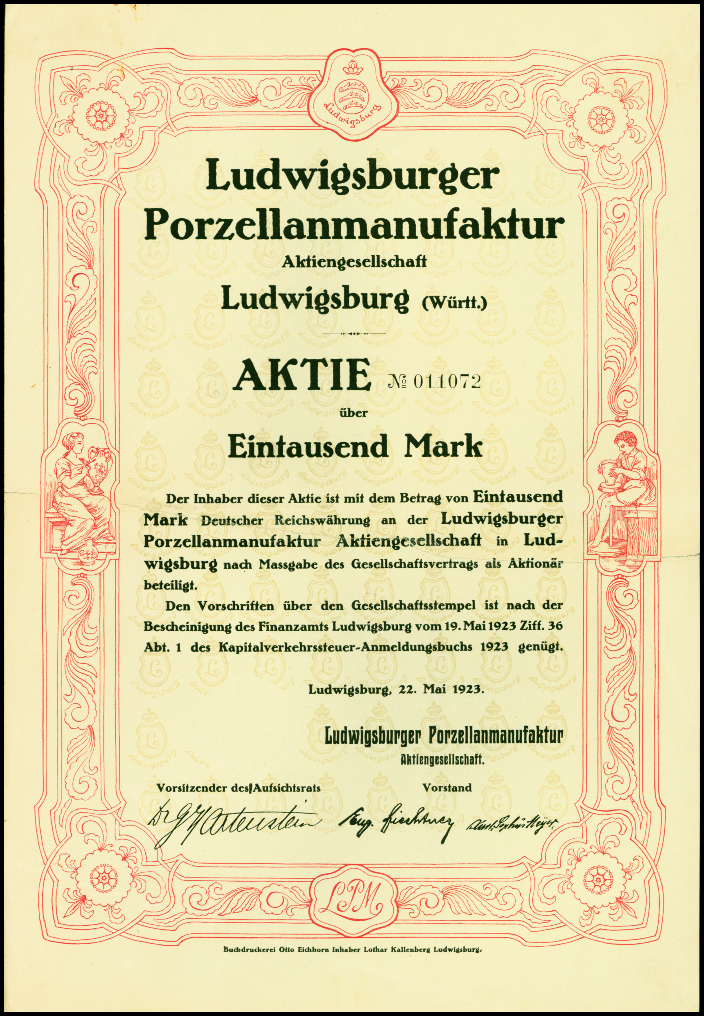 Share of the Ludwigsburger Porzellanmanufaktuer, issued 22. May 1923